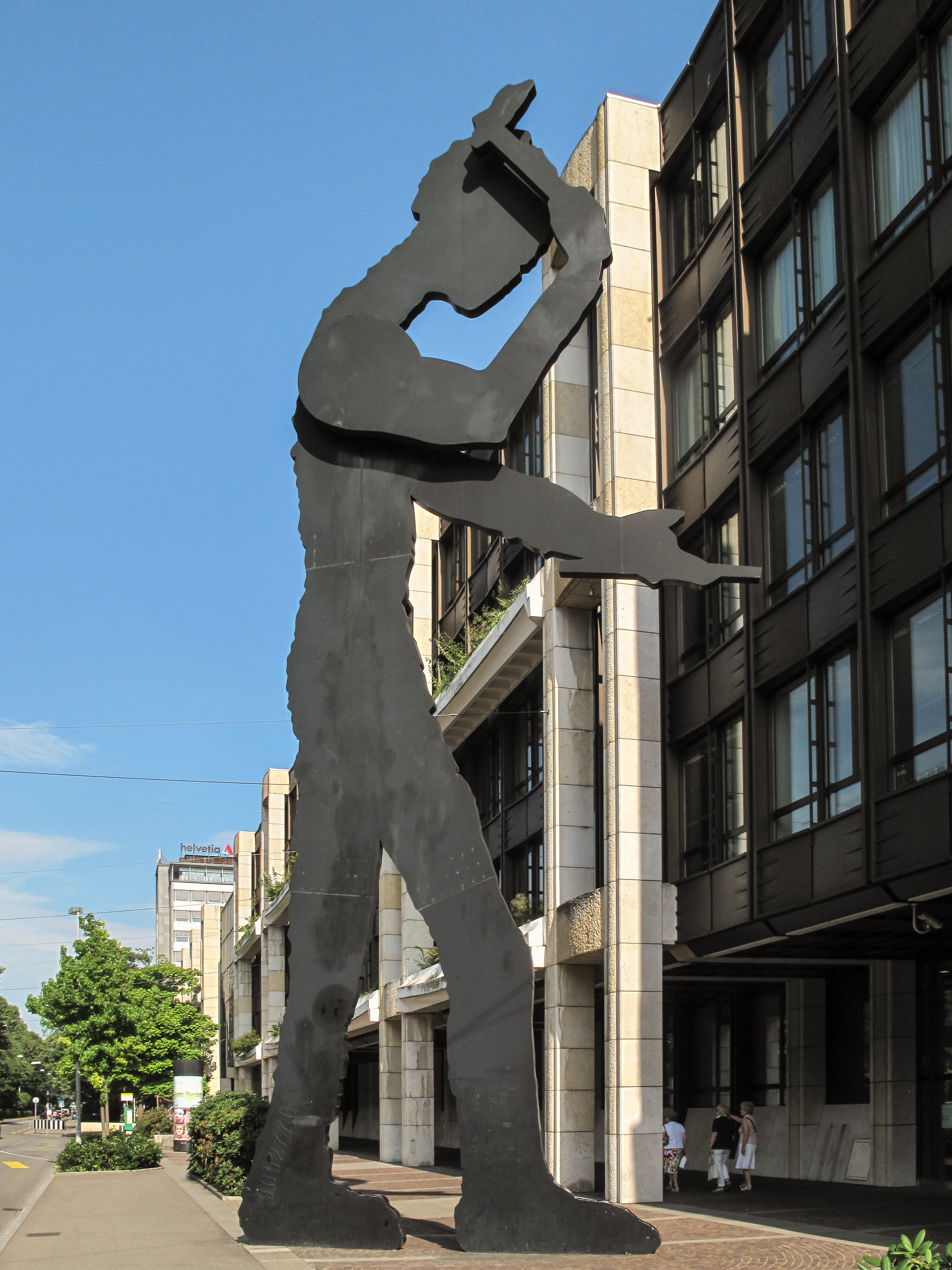 Basel, kinetic sculpture for UBSbank at Aeschenplatz